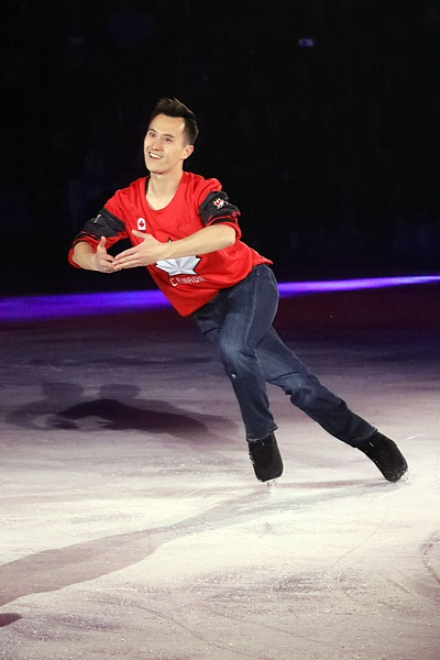 Patrick Chan at the Stars on Ice in Halifax on April 27, 2018